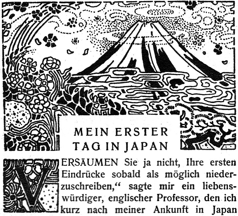 Hearn "Lotos" 1907 ill. by Emil Orlik